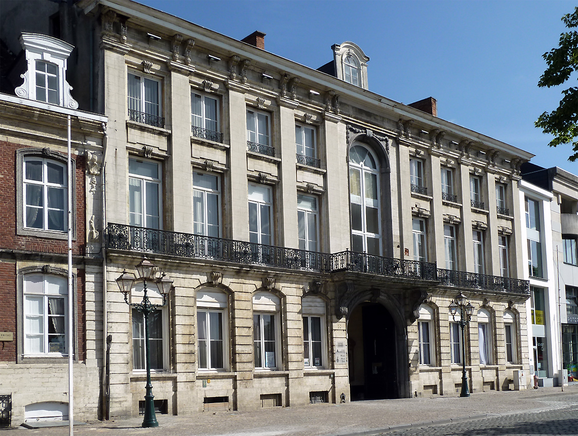 Tinnen Schotel, former hotel Tienen